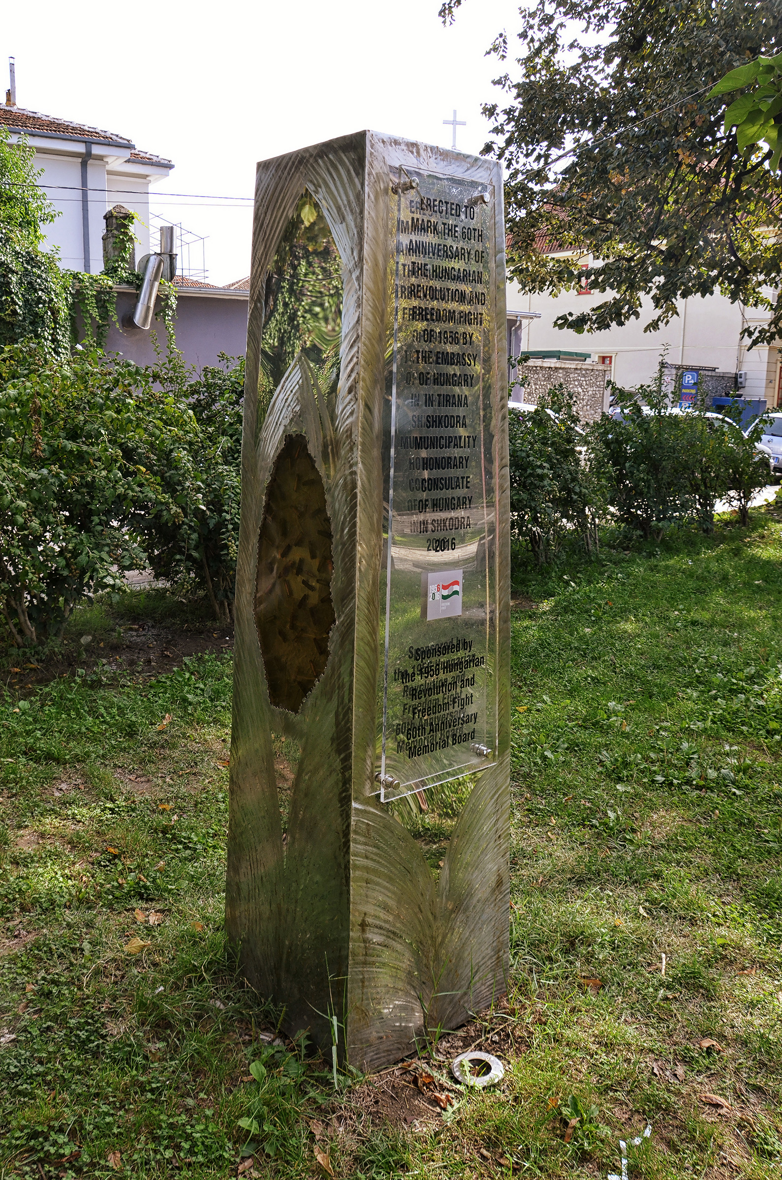 1956 Hungarian Revolution Memorial in Shkodër, Albania